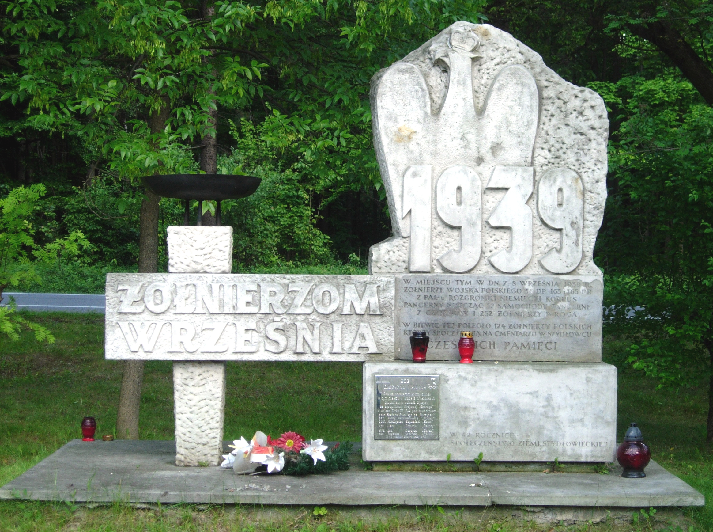 Monument to the "September Veterans" of 1939 in southern Poland near Kraków.